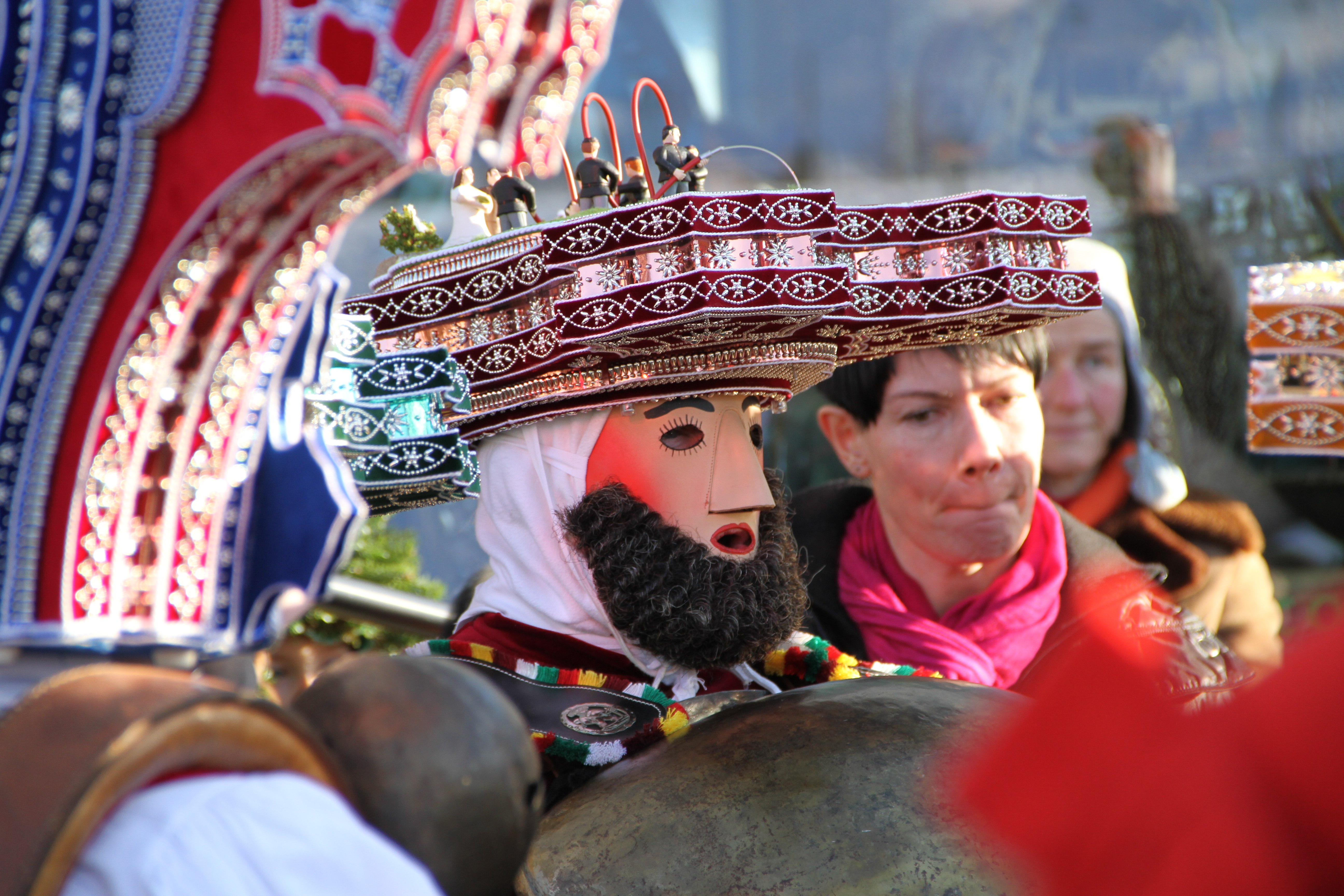 Celebrating "old" New Year's Eve in Urnäsch, Appenzell, Switzerland (2013)